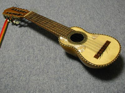 チャランゴ(2005年10月投稿者が撮影) ボリビア製 Charango made by luthier Rene Gamboa in Cochabamba, Bolivia. Category:楽器の画像